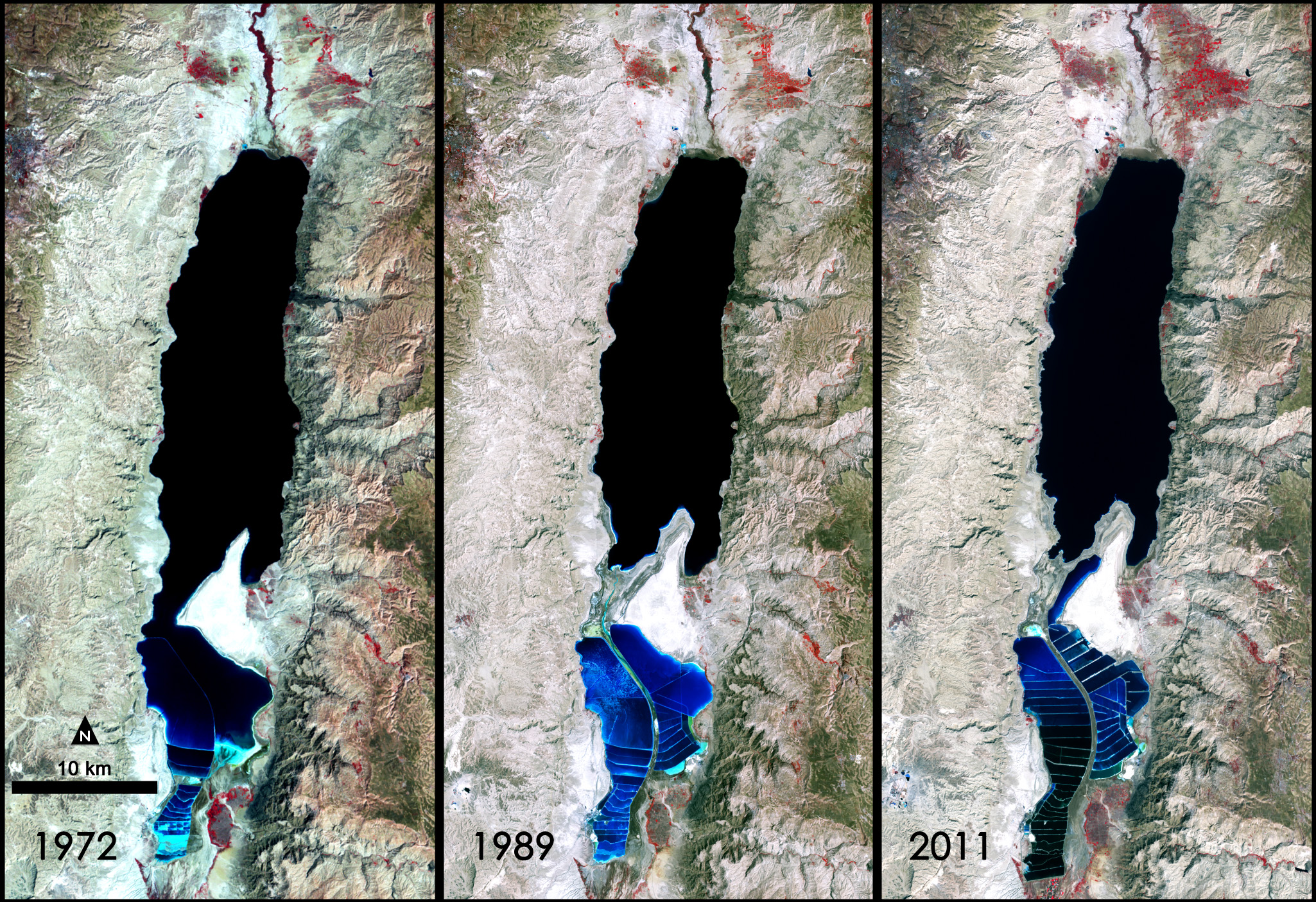 The expansion of massive salt evaporation projects on the Dead Sea are clearly visible in this time series of images taken by Landsat satellites operated by NASA and the U.S. Geological Survey.